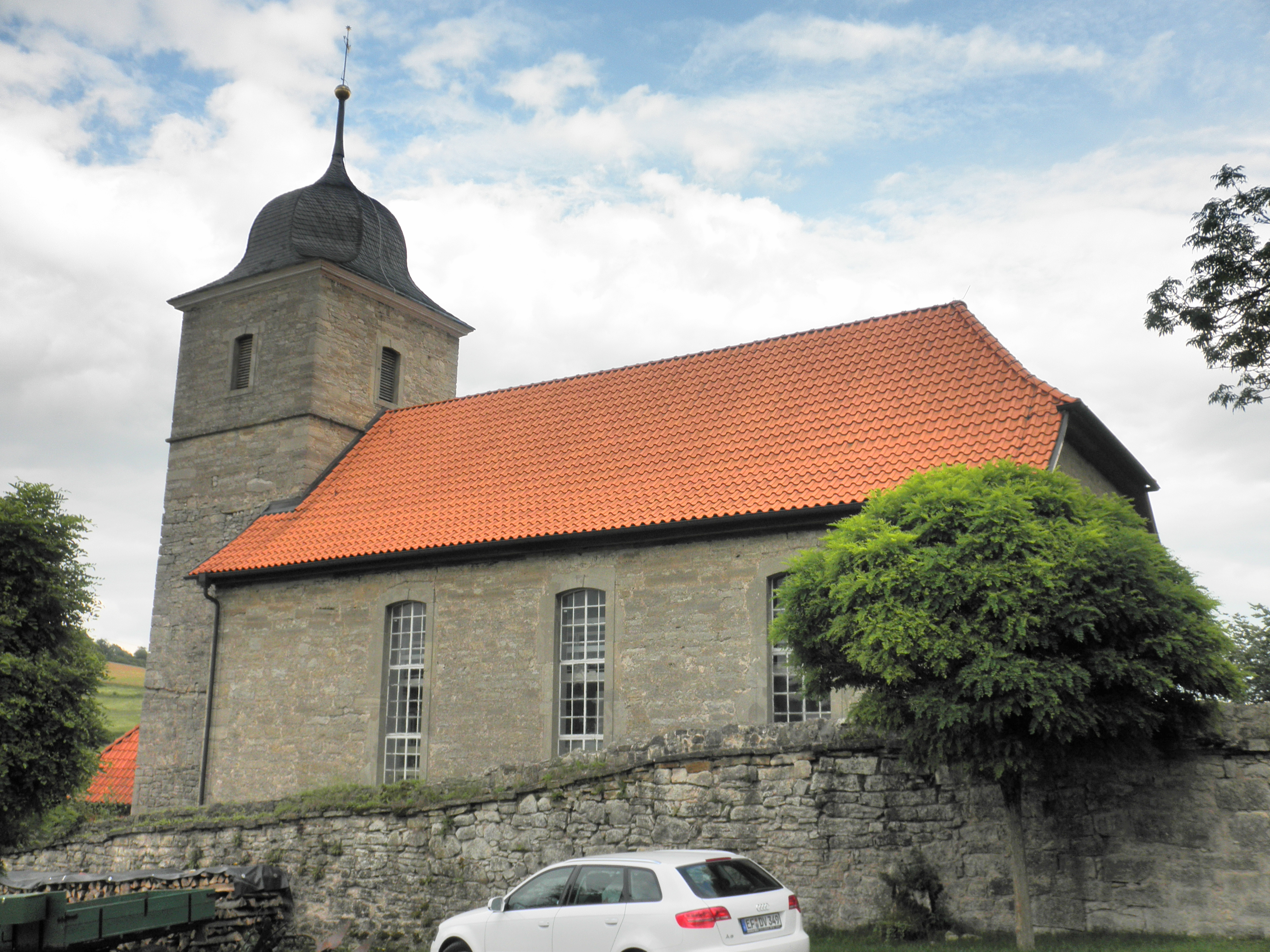 Church in Utendorf in Thuringia